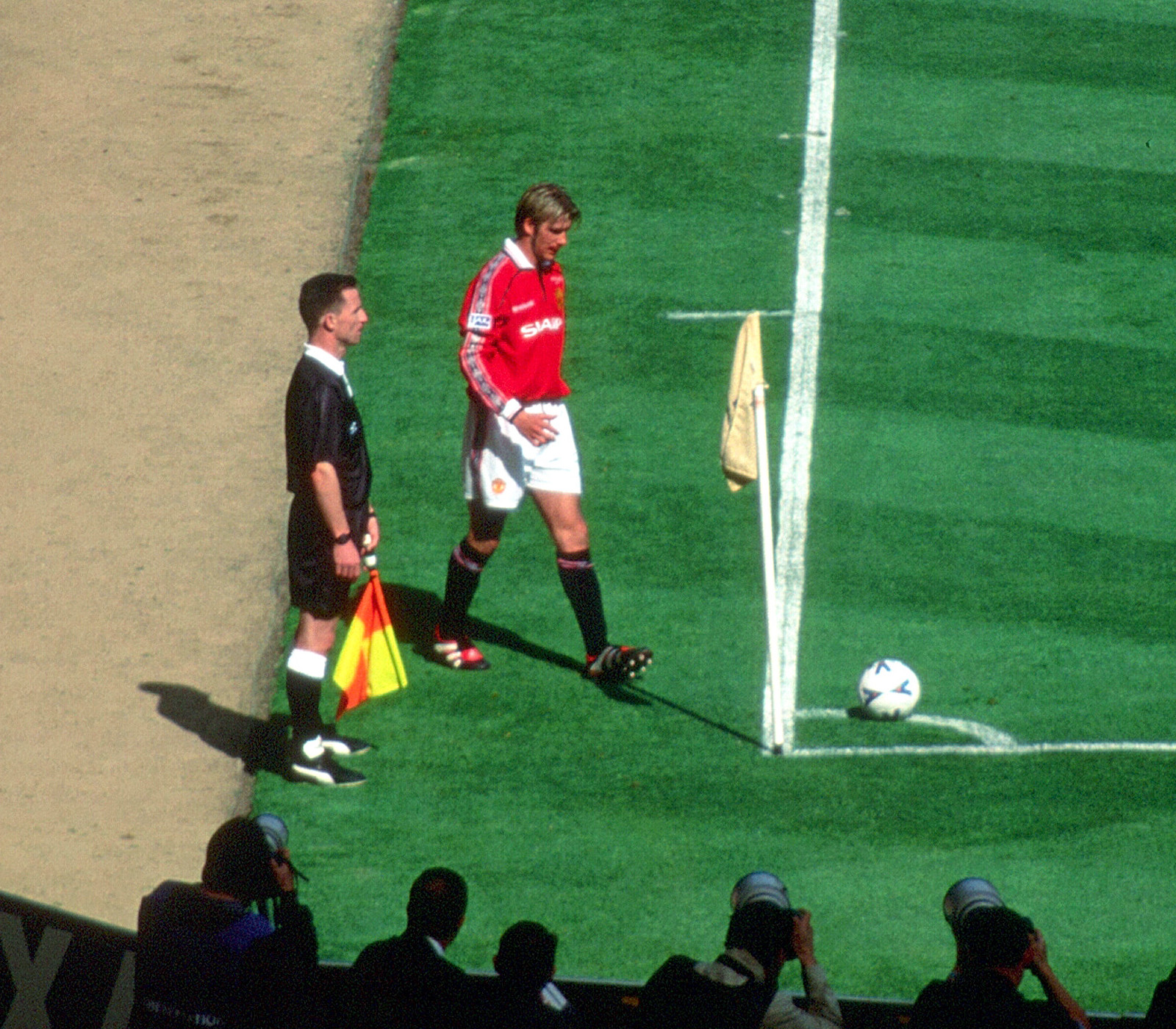 David Beckham prepares to take a corner kick for Manchester United in the 1999 FA Cup Final against Newcastle United at Wembley Stadium on 22 May 1999.